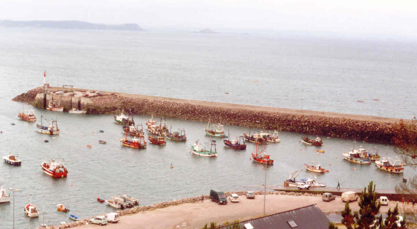 Fisher port in Bretagne